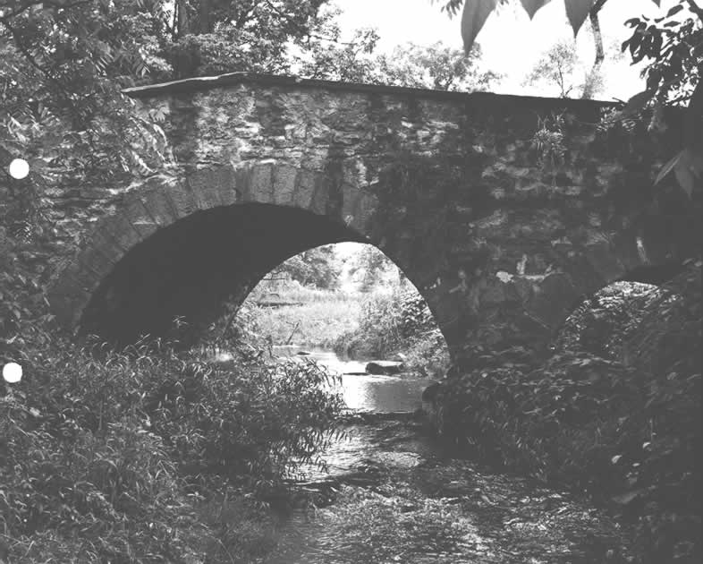 Side of the Bridge in Williams Township, which carries Legislative Route 48007 over Frey's Run near Stouts in Williams Township, Northampton County, Pennsylvania, United States. Built in 1857, this multspan camelback stone arch bridge is listed on the National Register of Historic Places.